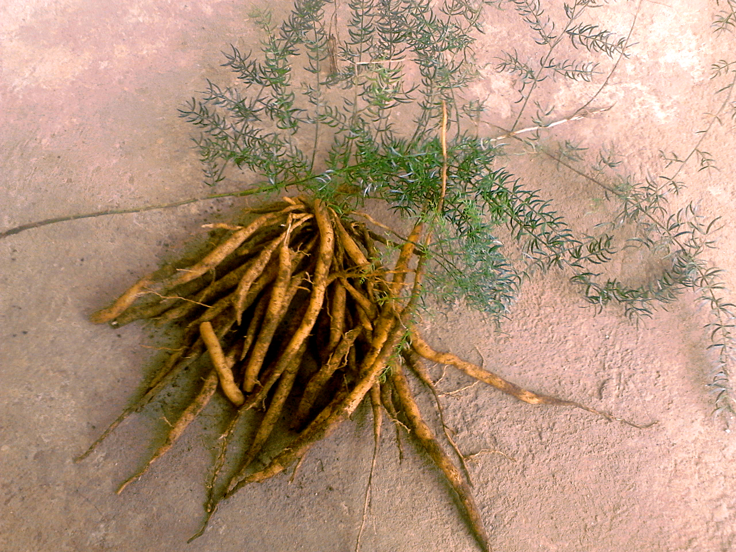 Asparagus densiflorus